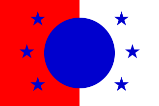 House flag of the German Steamship Company Kosmos